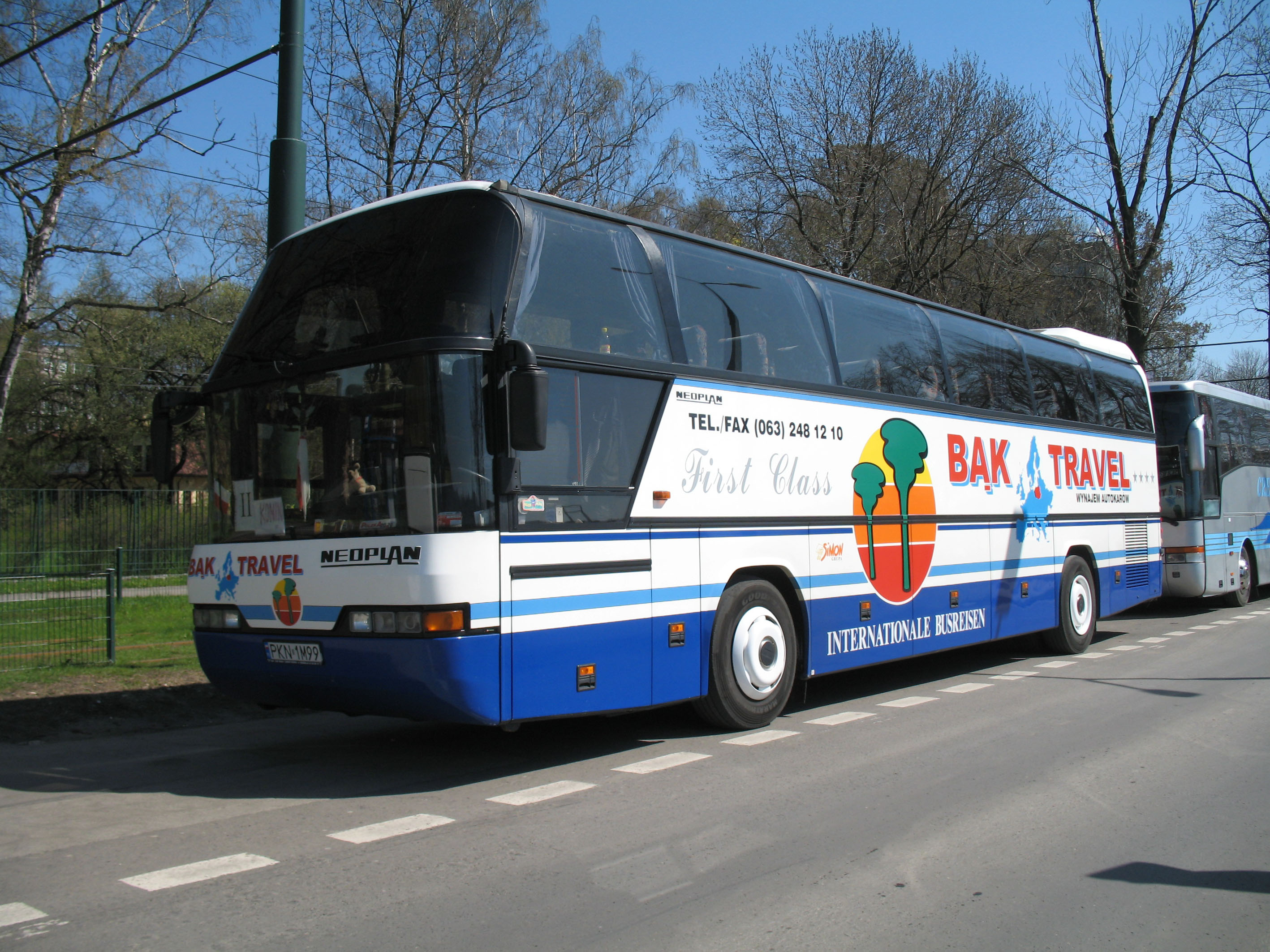 Neoplan N116 Cityliner coach in Kraków, Poland. Built 2002, Bąk from Rychwał operator.